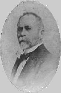 Henning Hammarlund, Clockmaker (1857-1922)